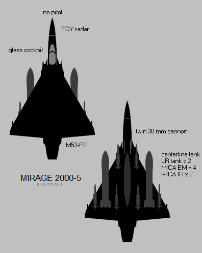 Plan-view silhouettes of the Dassault Mirage 2000-5 showing external stores